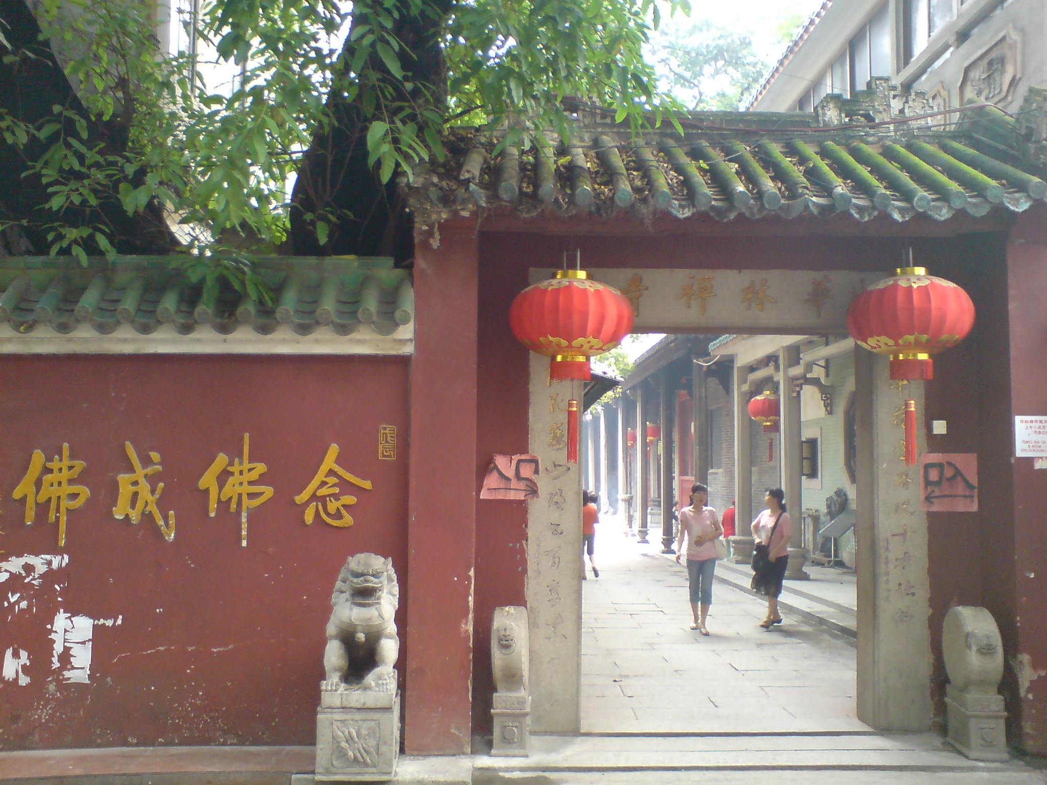 The main gate of the Buddhist Flowery Forest (Hualin) Temple in Guangzhou